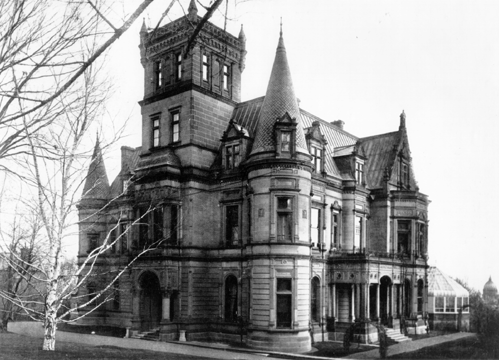 Duncan McIntyre's house "Craguie", McGregor Street (now Drummond Street), Montreal, QC, about 1890, destroyed in 1930 to make place in 1965 to the McIntyre Medical Sciences and Stewart Biological Sciences Buildings.